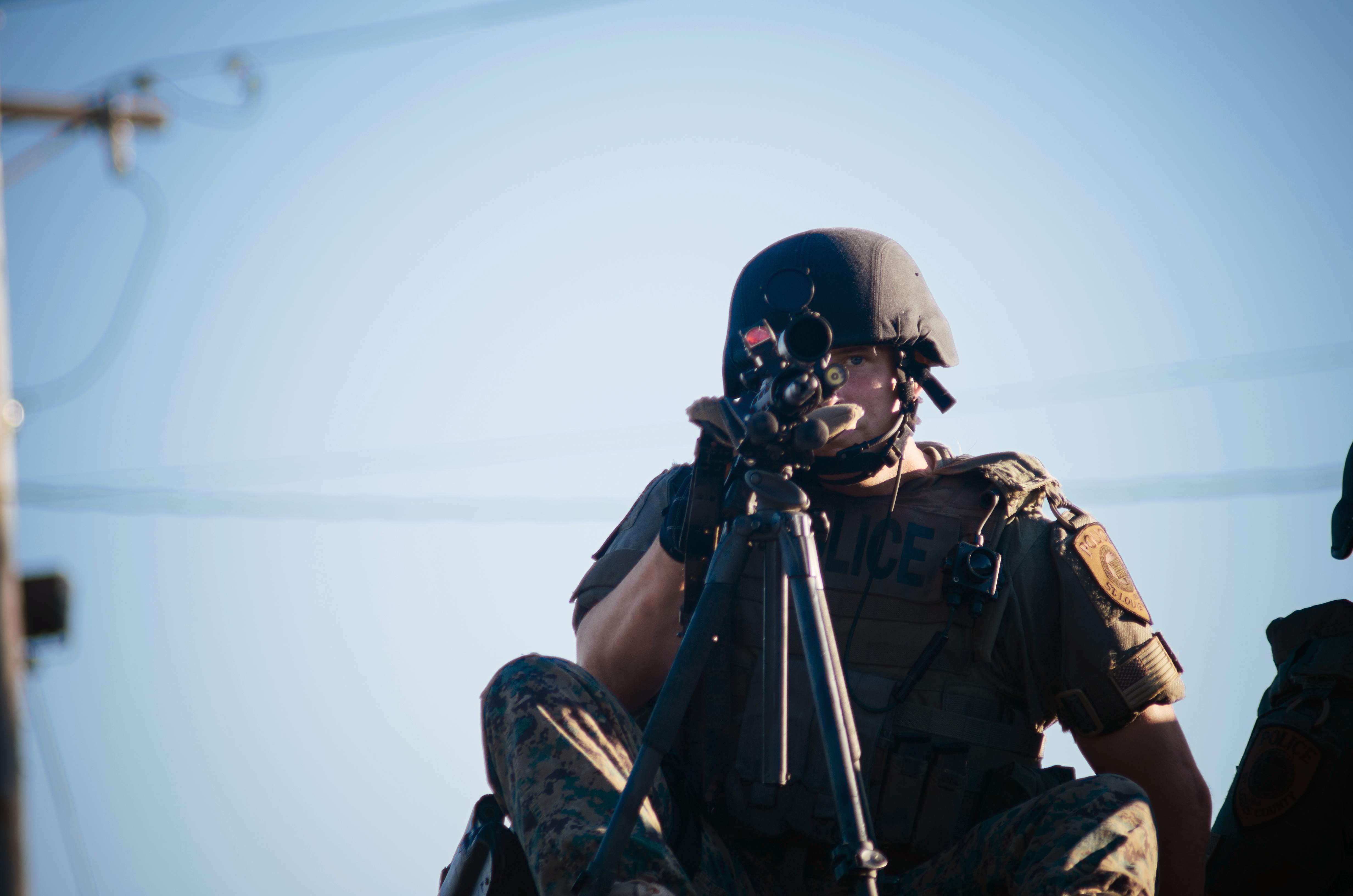 Police sharpshooter with weapon trained in the direction of the camera at protests in Ferguson, MO. The sharpshooter is a member of the the St. Louise Police.